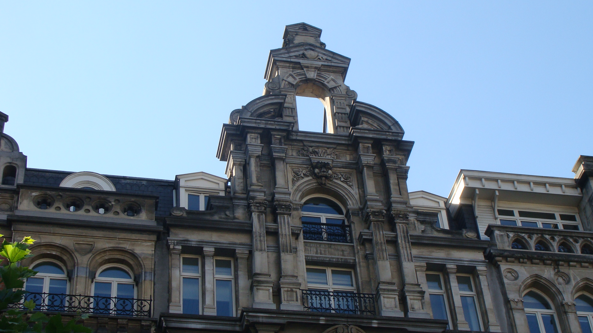 Place De Brouckère Building architecture frontage detail at Exki level.